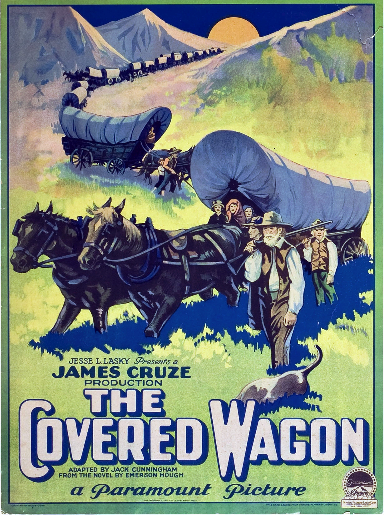 Poster for the American western film The Covered Wagon (1923). The item has no copyright markings on it as can be seen in the links above. At bottom is Country of Origin USA, the Morgan Litho Co., Cleveland, O. USA, and This card leased from Famous Players LAsky Co.